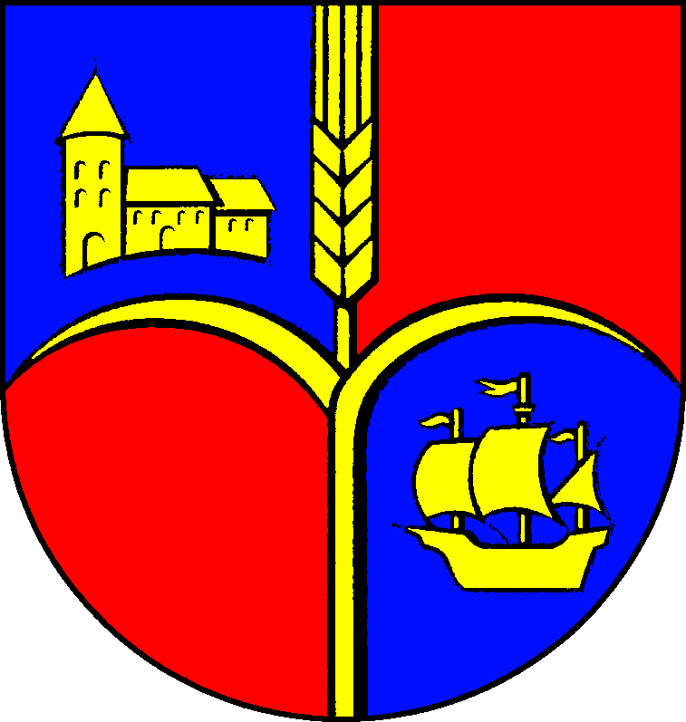 Coat of arms of the municipality Oldenswort in Schleswig-Holstein, Germany.